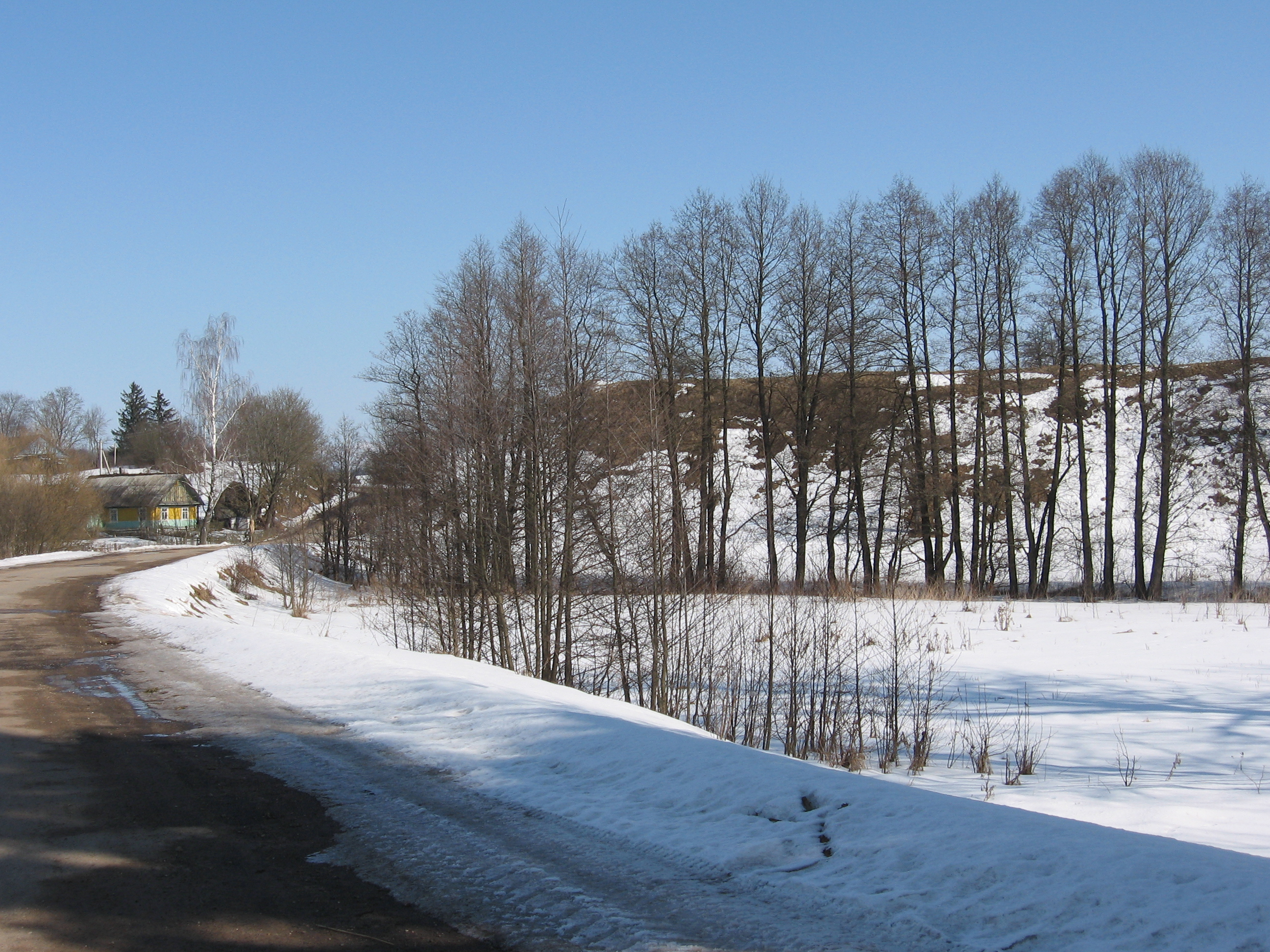 Беларуская (тарашкевіца): Гарадзішча. в. Лоск This is a photo of Belarusian heritage monument. Reference number: 613В000092 ( WLM)